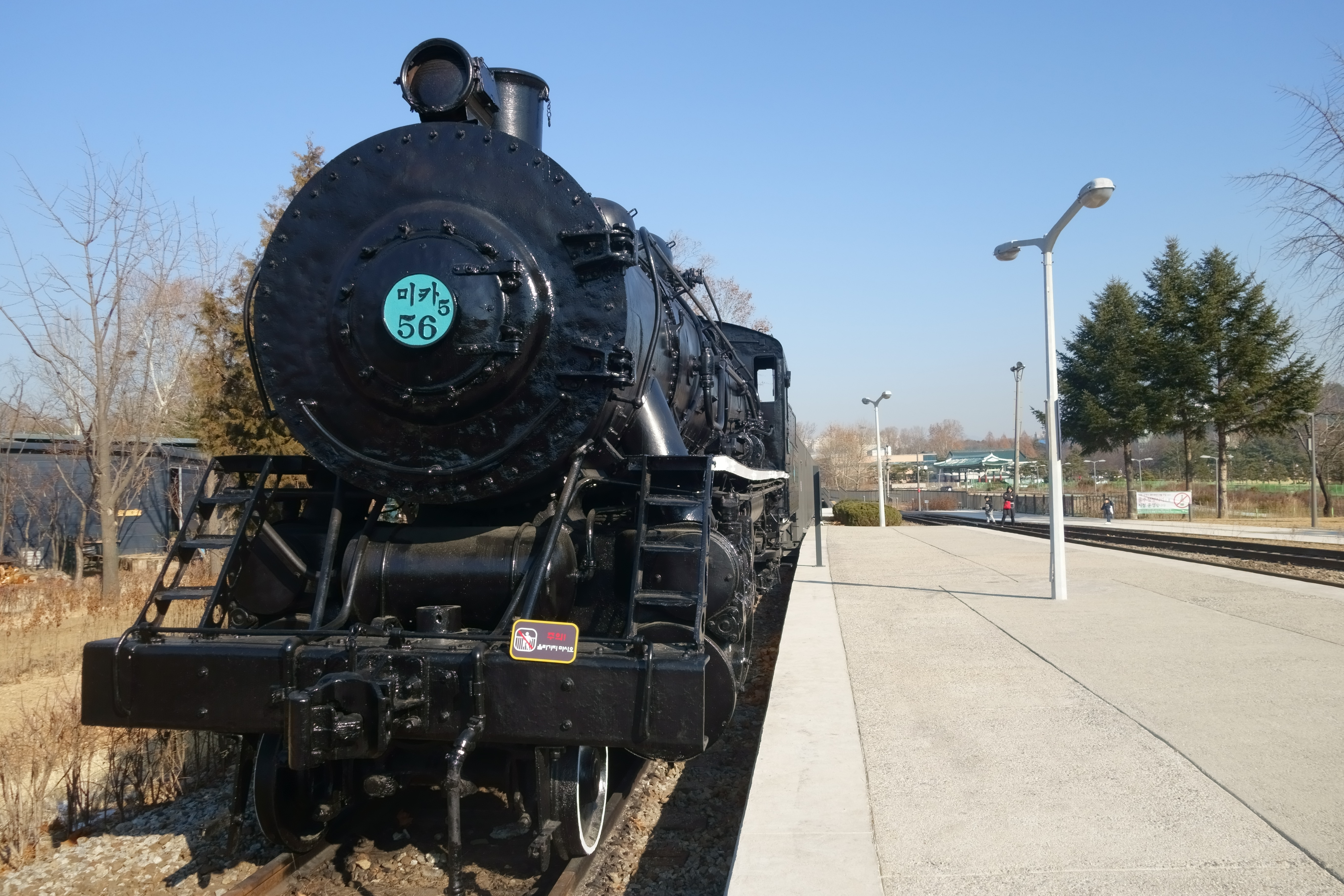 South Korea steam locomotive 'Mika' 5-56 front